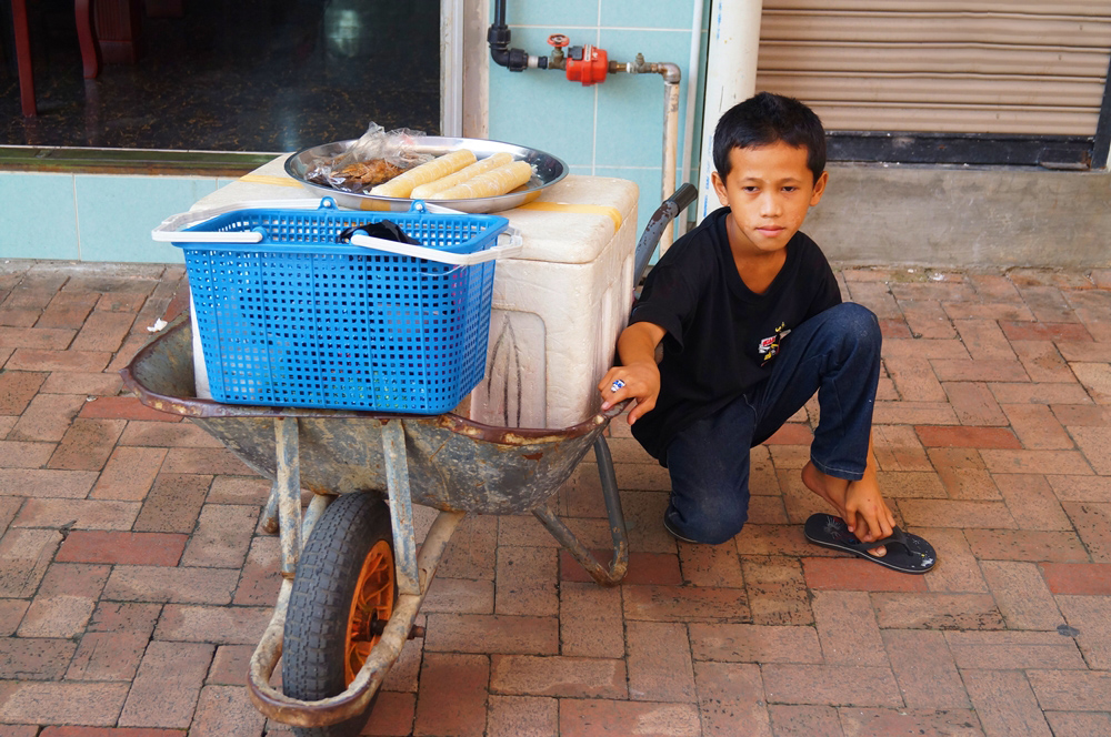 Tausug Refugee Child selling Piyutu [Traditional steamed tapioca]